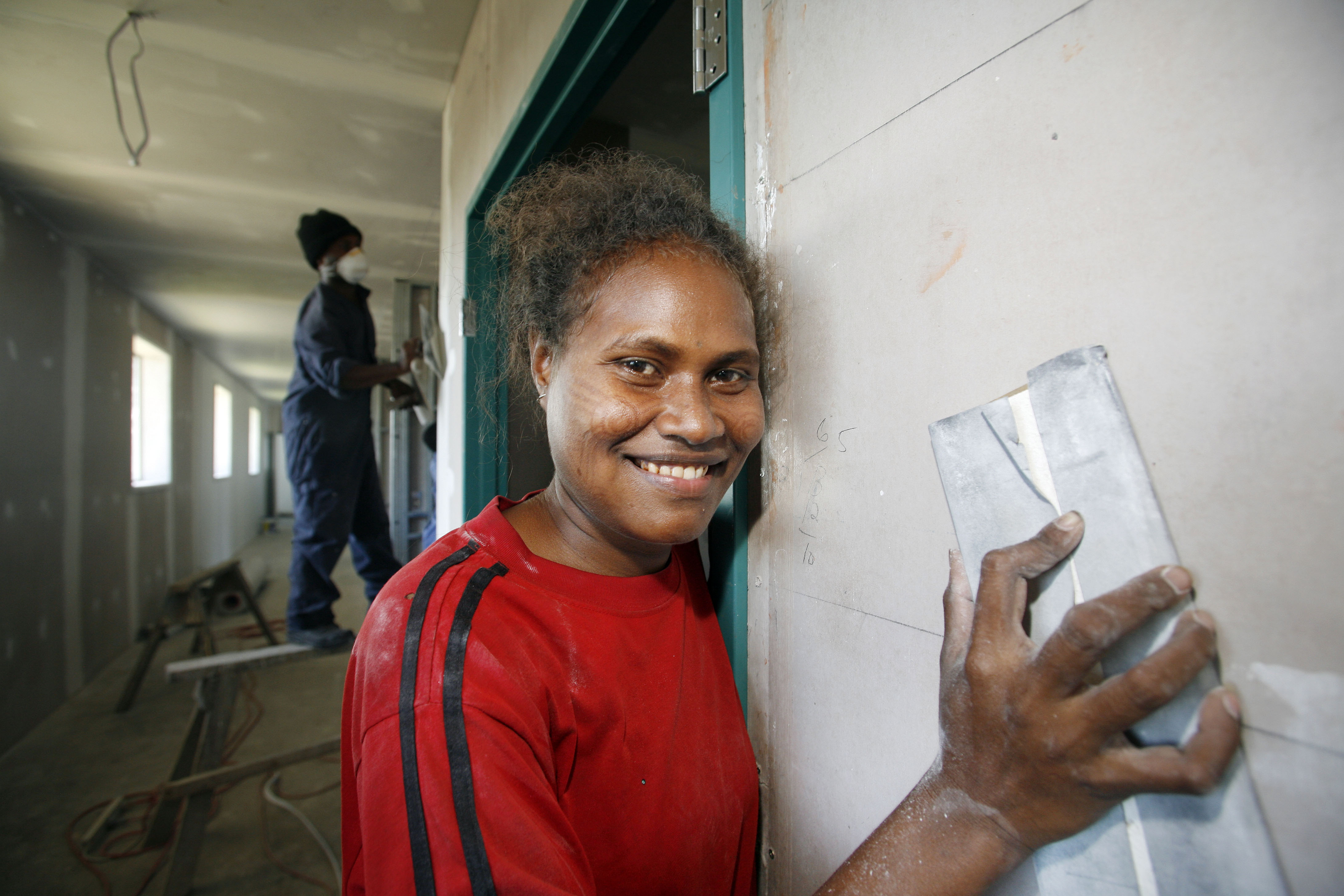 Solomon Islands, Honiara. July 2007. Mary Louis from Malaita puts the finishing touches to the Solomon Islands National Health Laboratory Photo: Rob Maccoll for AusAID. To request copyright use and access to hi-res versions of this photo